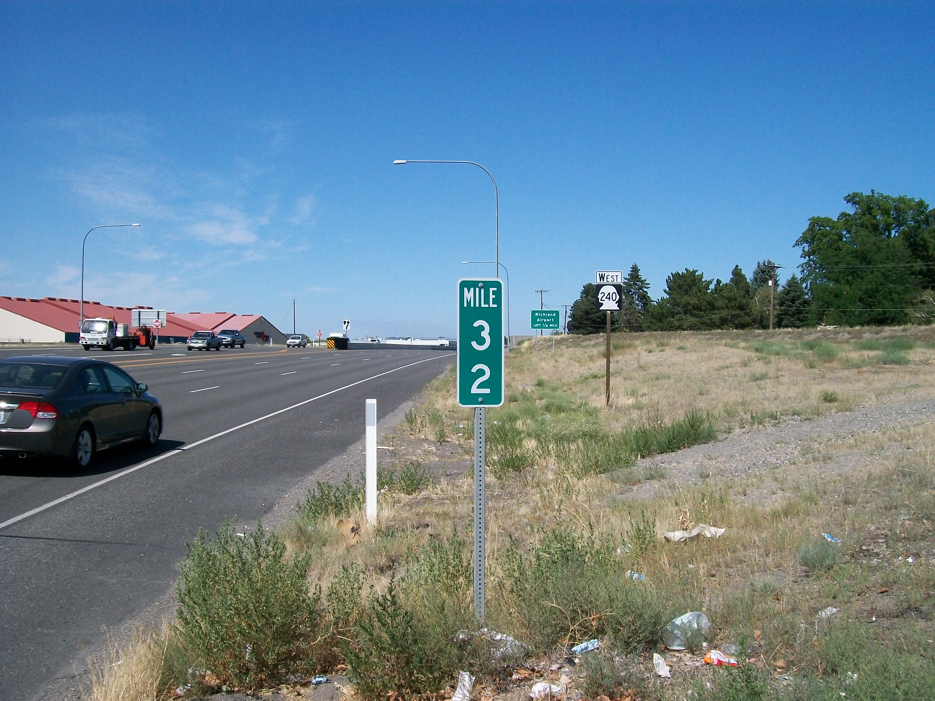 An intersection in Richland including the Bypass Highway (concurrent with Washington State Route 240), Van Giesen Street (concurrent west of the intersection with Washington State Route 224), and a railroad crossing.